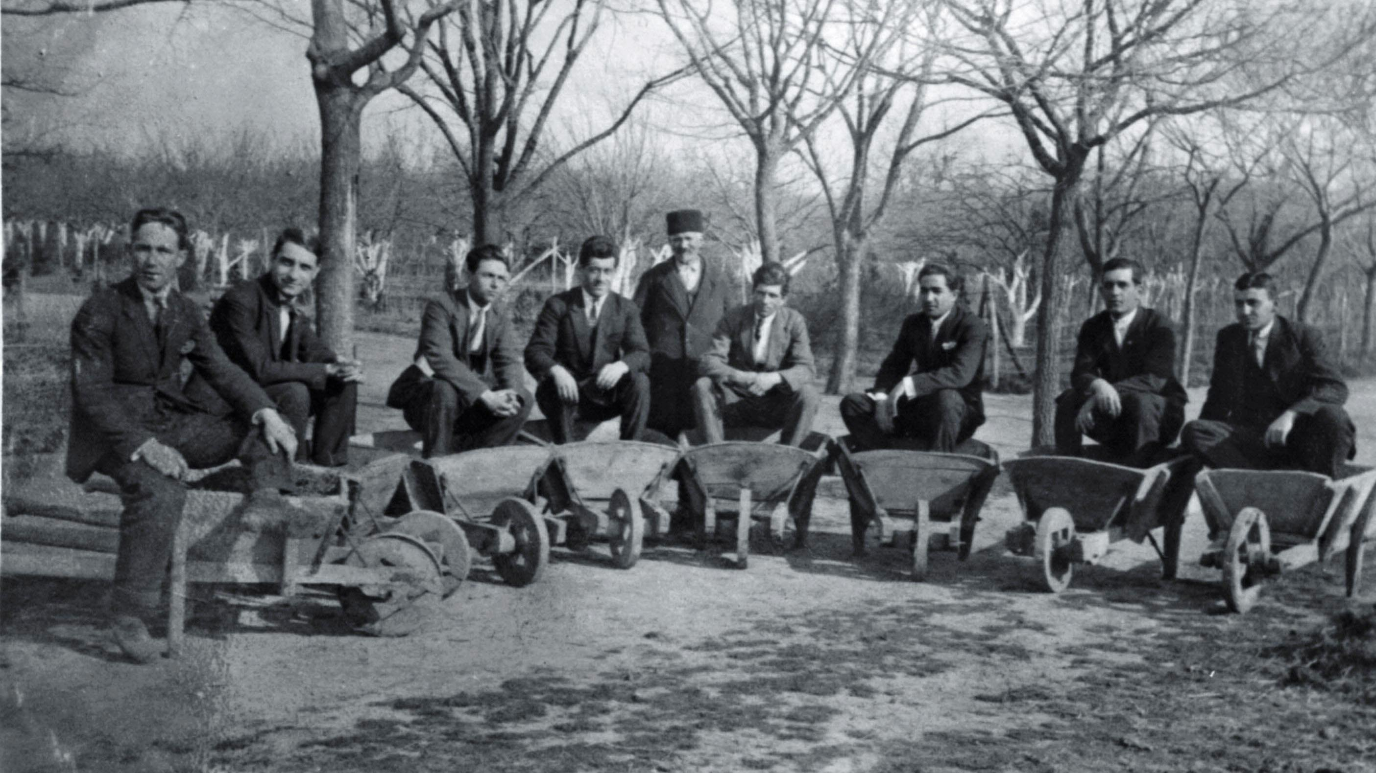 Varna Sea Garden- 1920 Assistants of Anton Novac